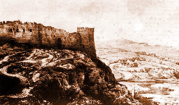 Fortress in the Ukrainian city of Zhvanets where there was a battle in 1653 during the Khmelnytsky Uprisings. Work by Napoleon Orda